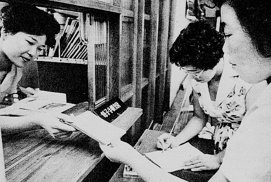 Handing over maternity record book